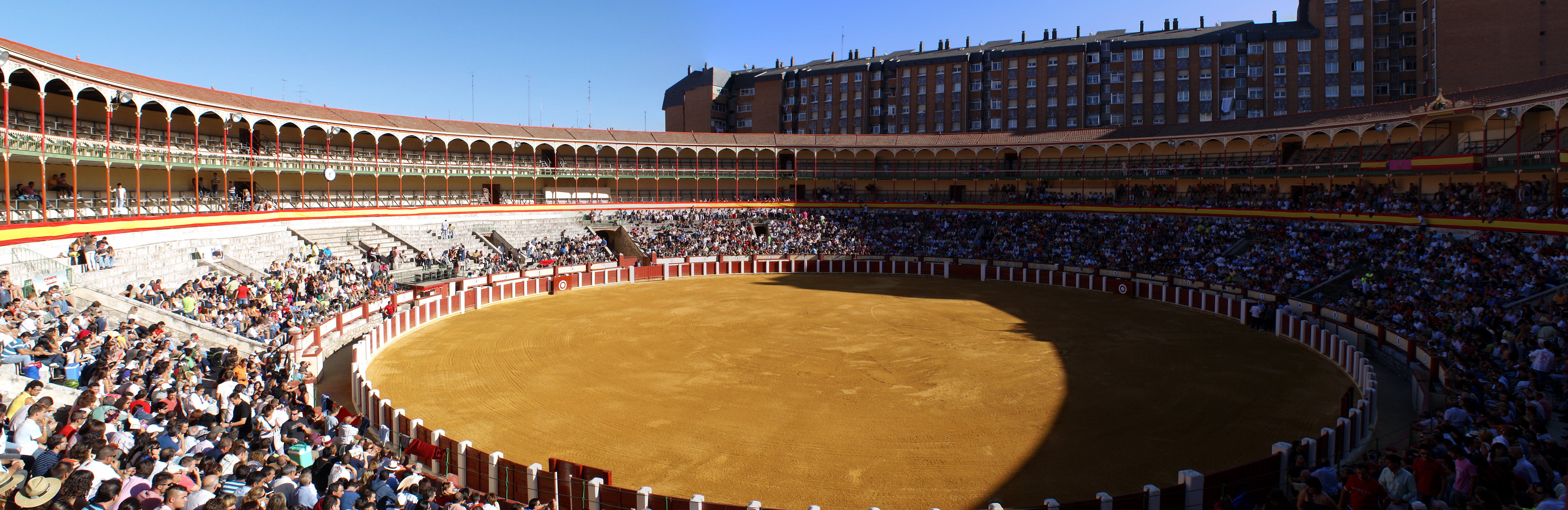 General view of Valladolid's bullring.